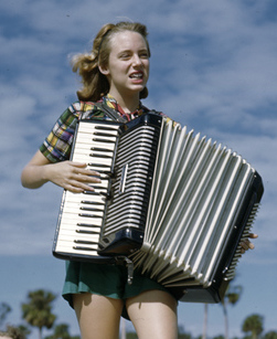 Local call number: JJS0512 Title: Lois Duncan Steinmetz playing the accordion aboard the shantyboat Lazy Bones Date: ca. 1947 General Note: The Steinmetz family on a trip upriver between Ft. Myers and Clewiston on the Caloosahatchee River. Physical descrip: 1 transparency - col. - 5 x 4 in. Series Title: Joseph Janney Steinmetz Collection Repository: State Library and Archives of Florida, 500 S. Bronough St., Tallahassee, FL 32399-0250 USA. Contact: 850.245.6700. Persistent URL